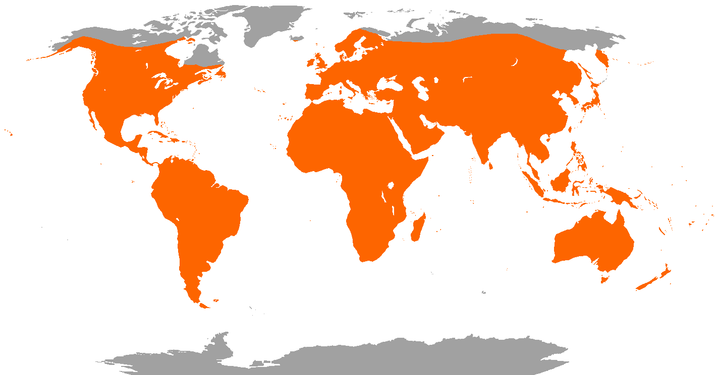 Map showing the range of the Bat.